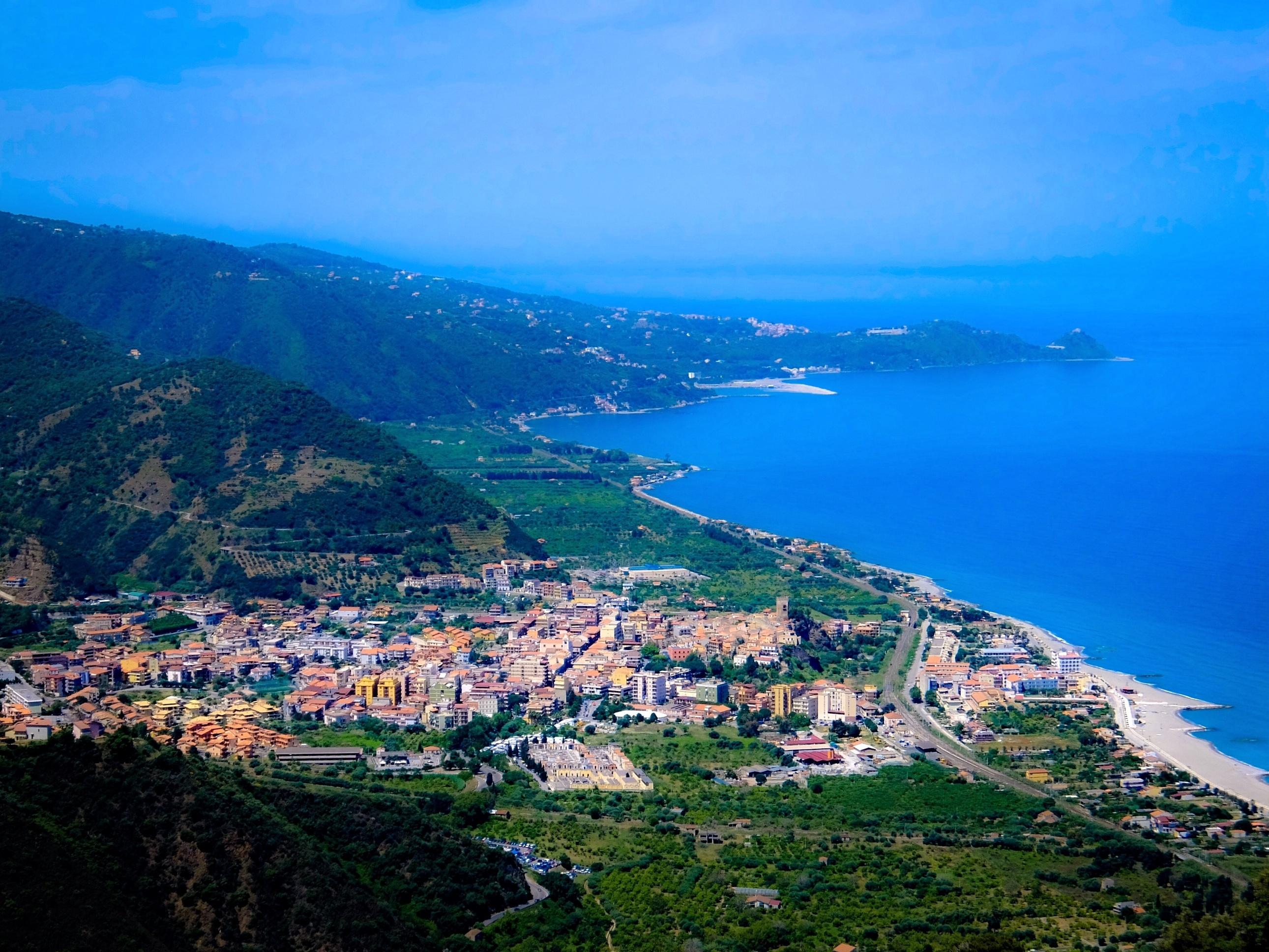 Brolo. Sullo sfondo il monte di Capo D'Orlando. Brolo. In the background the mountain of Capo D'orlando.